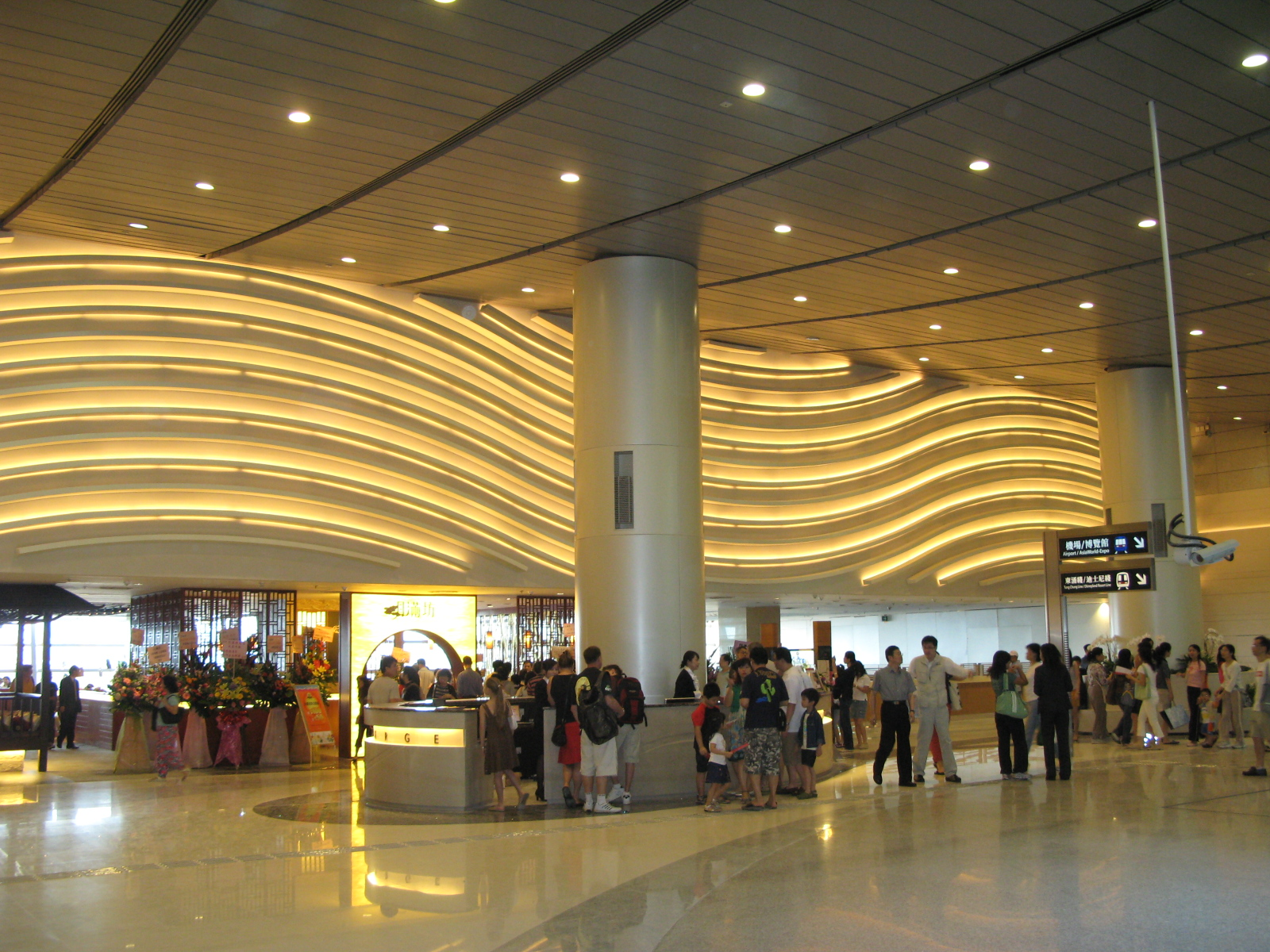 HK Elements Enterance IN Kowloon Station